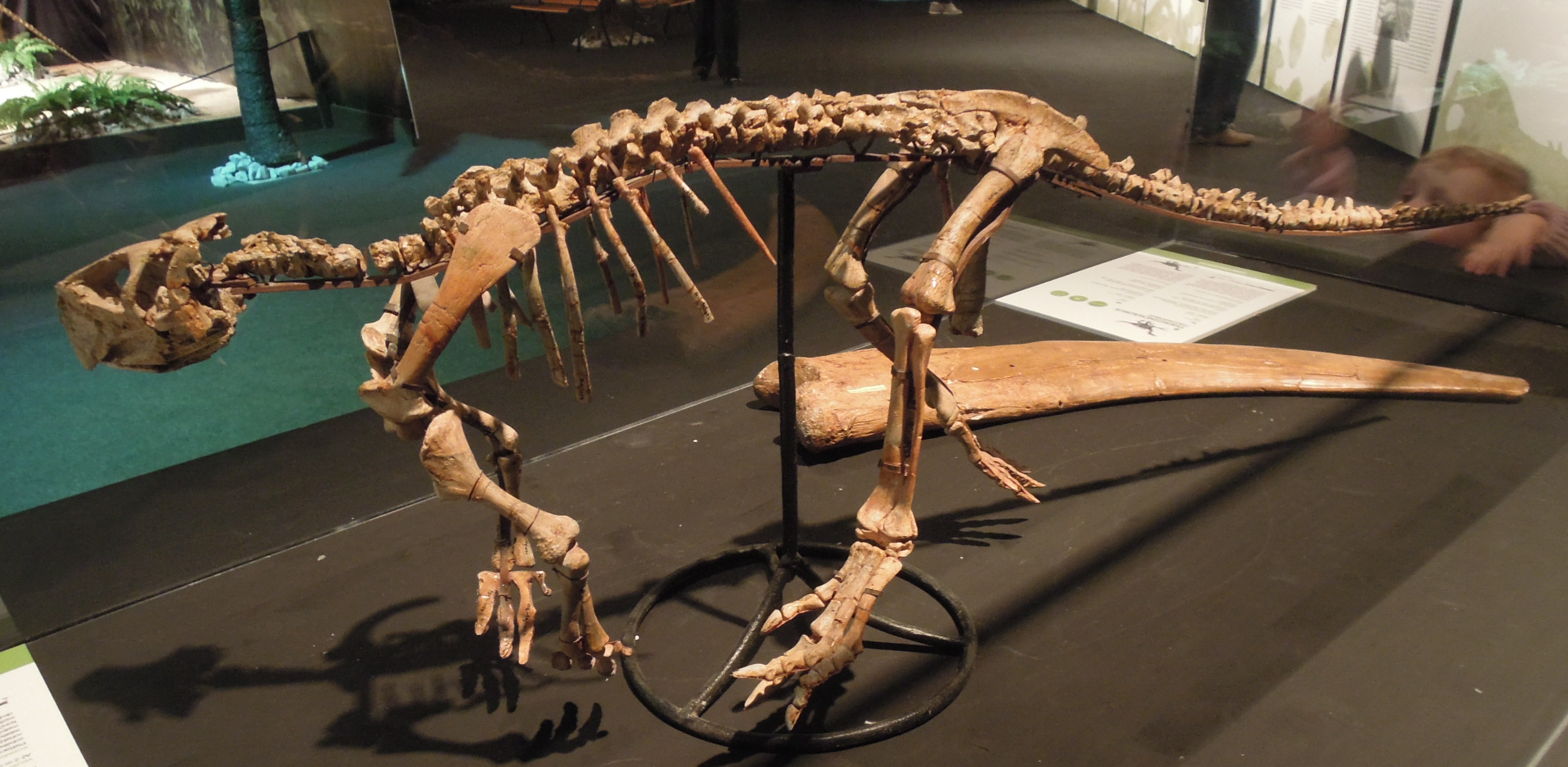 Psittacosaurus mongoliensis, Dinosaurium exhibition, Prague, Czech Republic